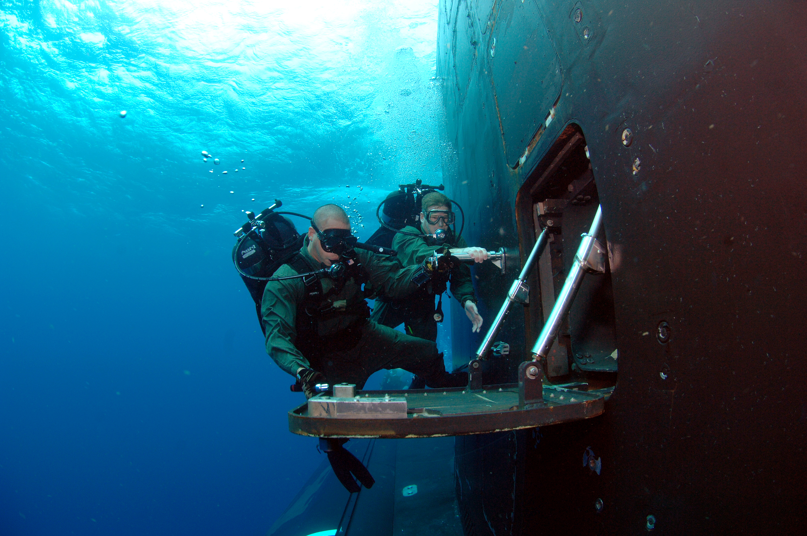 071026-N-3093M-008 KEY WEST, Fla. (Oct. 26, 2007) Navy divers and special operators from SEAL Delivery Vehicle Team (SDV) 2 and Naval Special Warfare Logistics Support conduct Lock Out Training with the nuclear-powered fast-attack submarine USS Hawaii (SSN 776) for material certification. Material certification allows operators to perform real-world operations anytime, anywhere. U.S. Navy photo by Senior Chief Mass Communication Specialist Andrew McKaskle (Released)